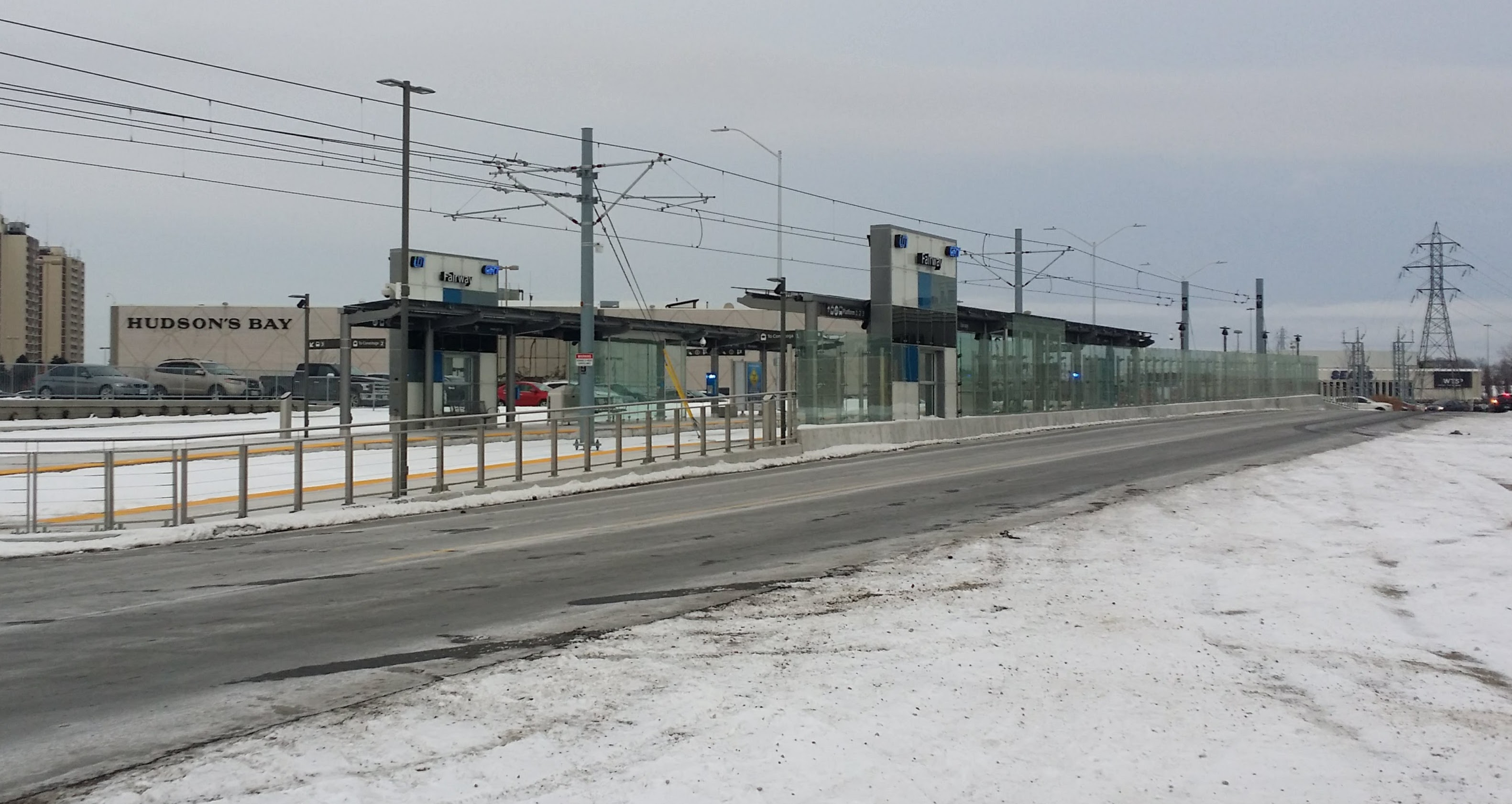 Fairway Station of the Ion rapid transit system, photographed structurally complete December 2017